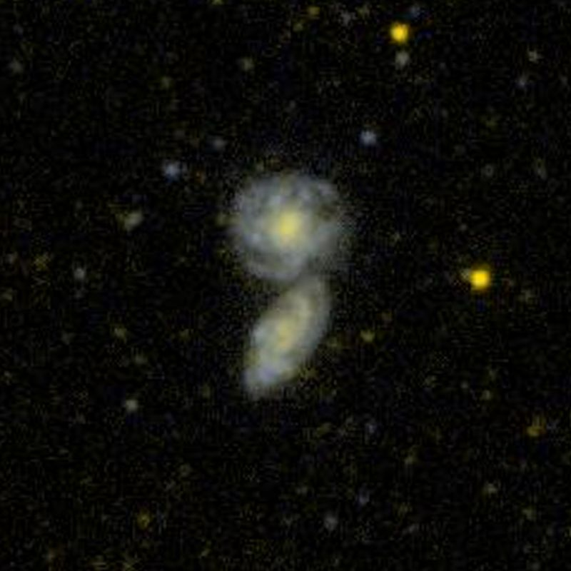 NGC 4231 (top) and NGC 4232 (bottom) galaxies by GALEX